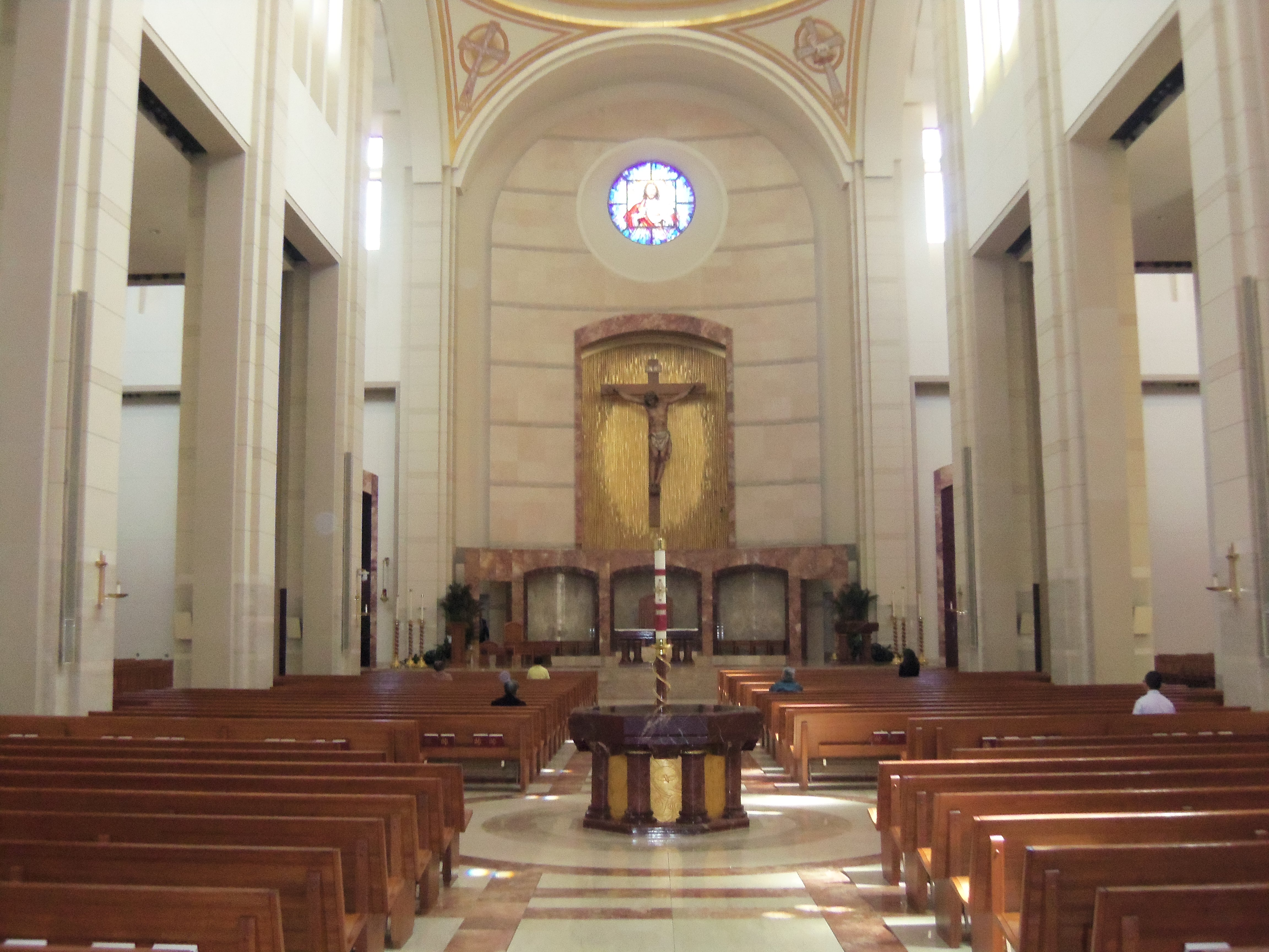 The interior of the Co-Cathedral of the Sacred Heart in Houston, Texas.